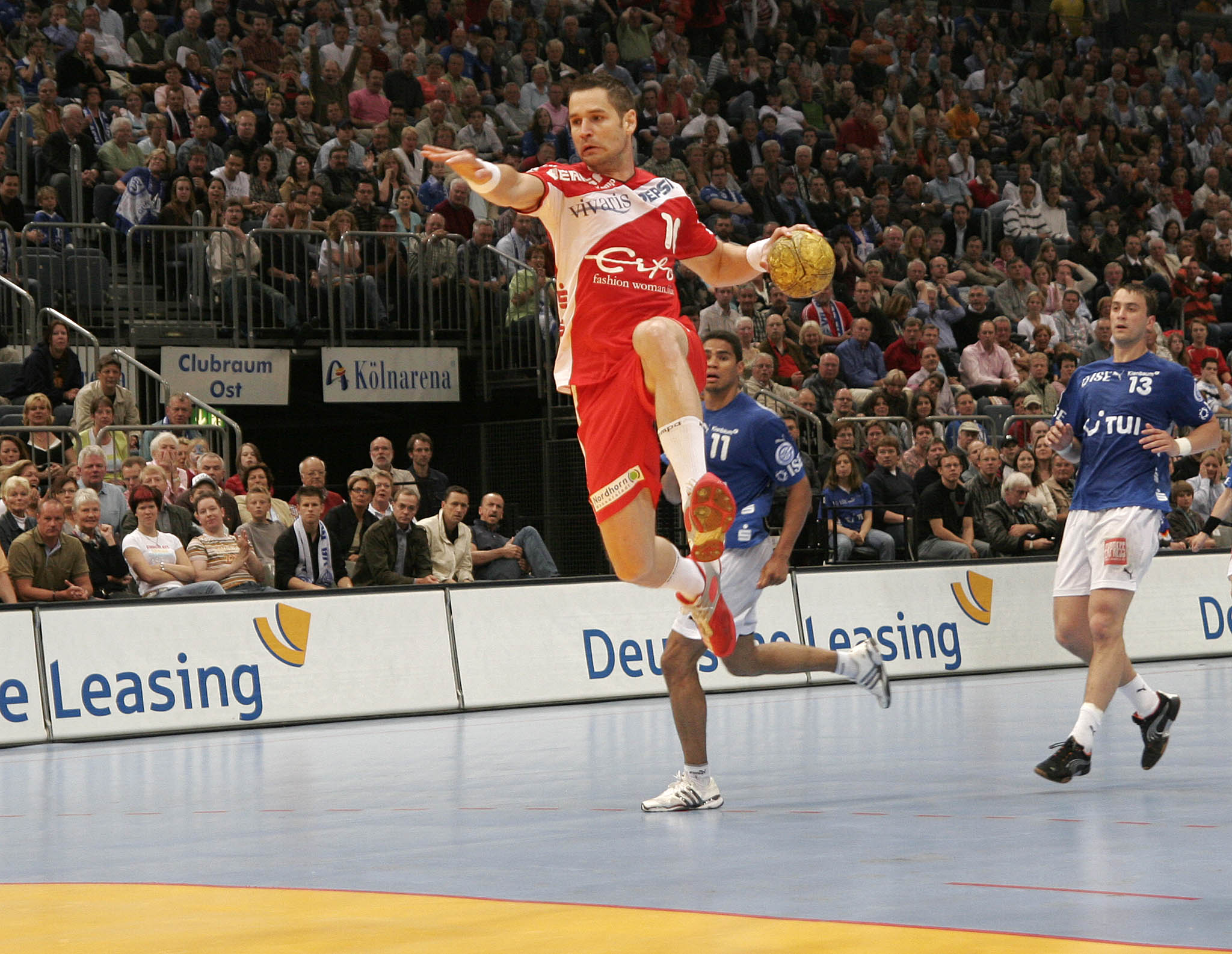 Jan Filip, the Czech Handballplayer. Picture made during the game VfL Gummersbach vers. HSG Nordhorn in Cologne (Köln-Arena)